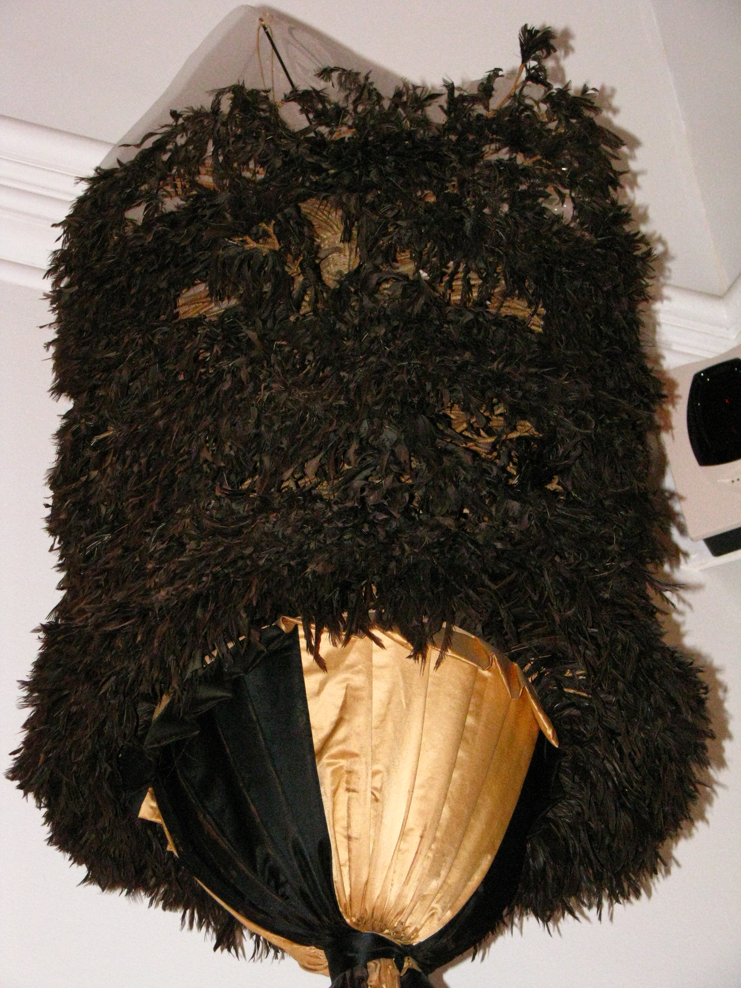 This kāhili was named after Kekuʻiapoiwa, the mother of Kamehemeha the Great. 6,000 tail feathers, representing hundreds of Hawaiʻi ʻōʻō (Moho nobilis), were used to make this one kāhili. The Hawaiʻi ʻōʻō is now extinct. Bishop Museum, Honolulu, Hawaiʻi